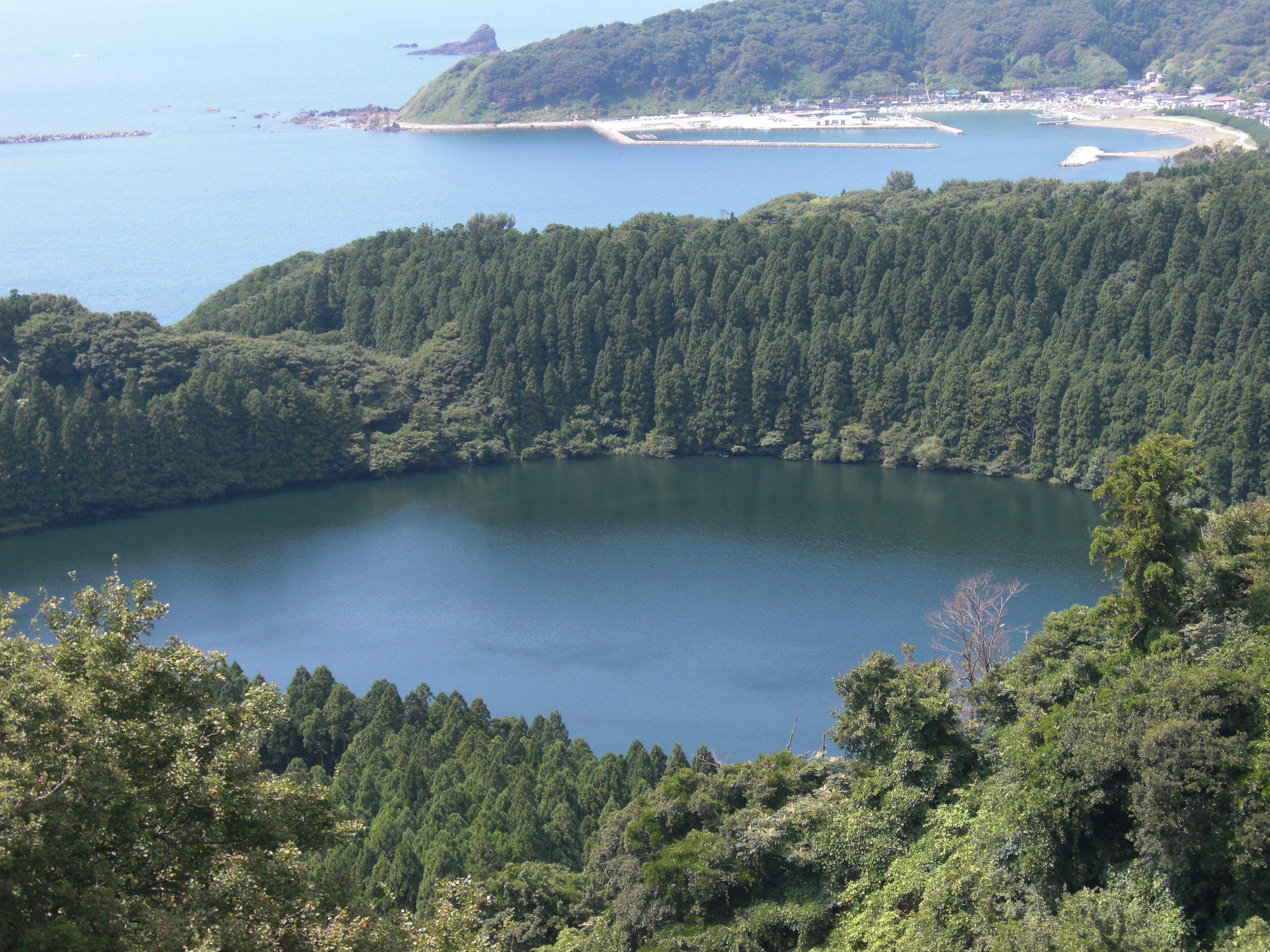 Ninomegata Maar from Hachibodai, Oga, Akita, Japan.